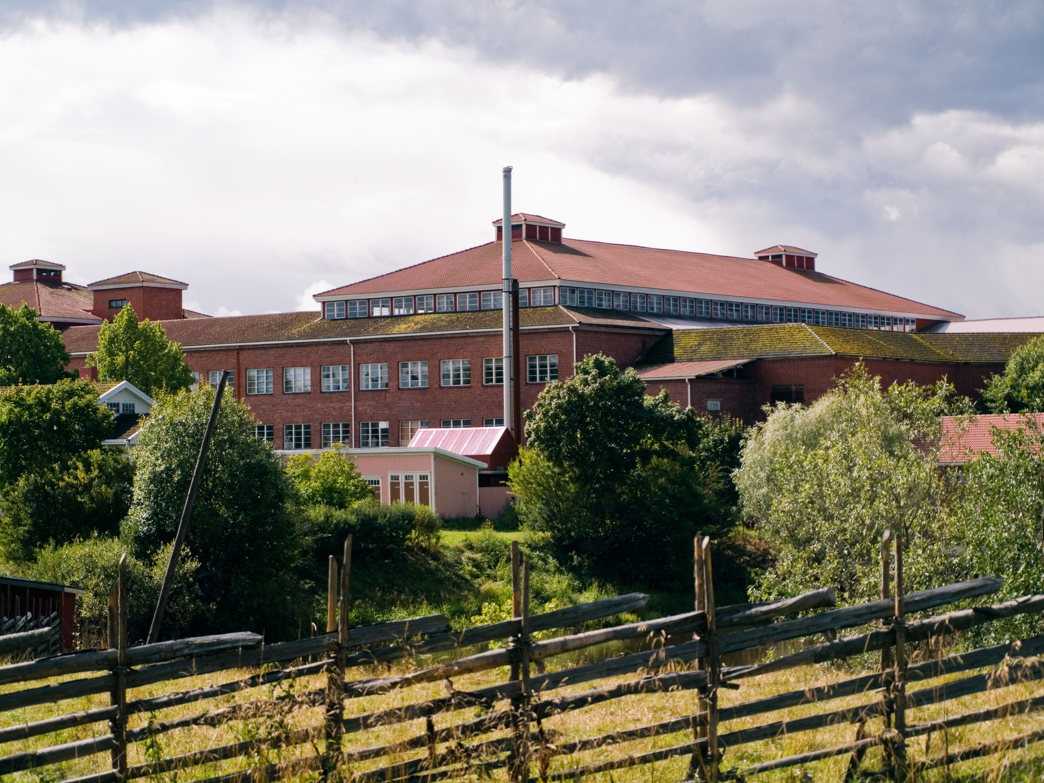 Former paper mill and leatherware factory in Vesikoski, Loimaa, Finland.